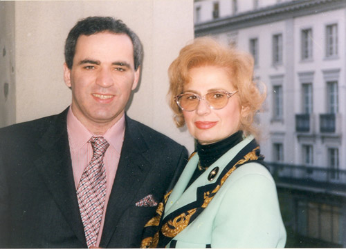 Garry & Klara, Zurich.